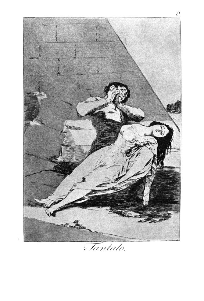 Los Caprichos is a set of 80 aquatint prints created by Francisco Goya for release in 1799.